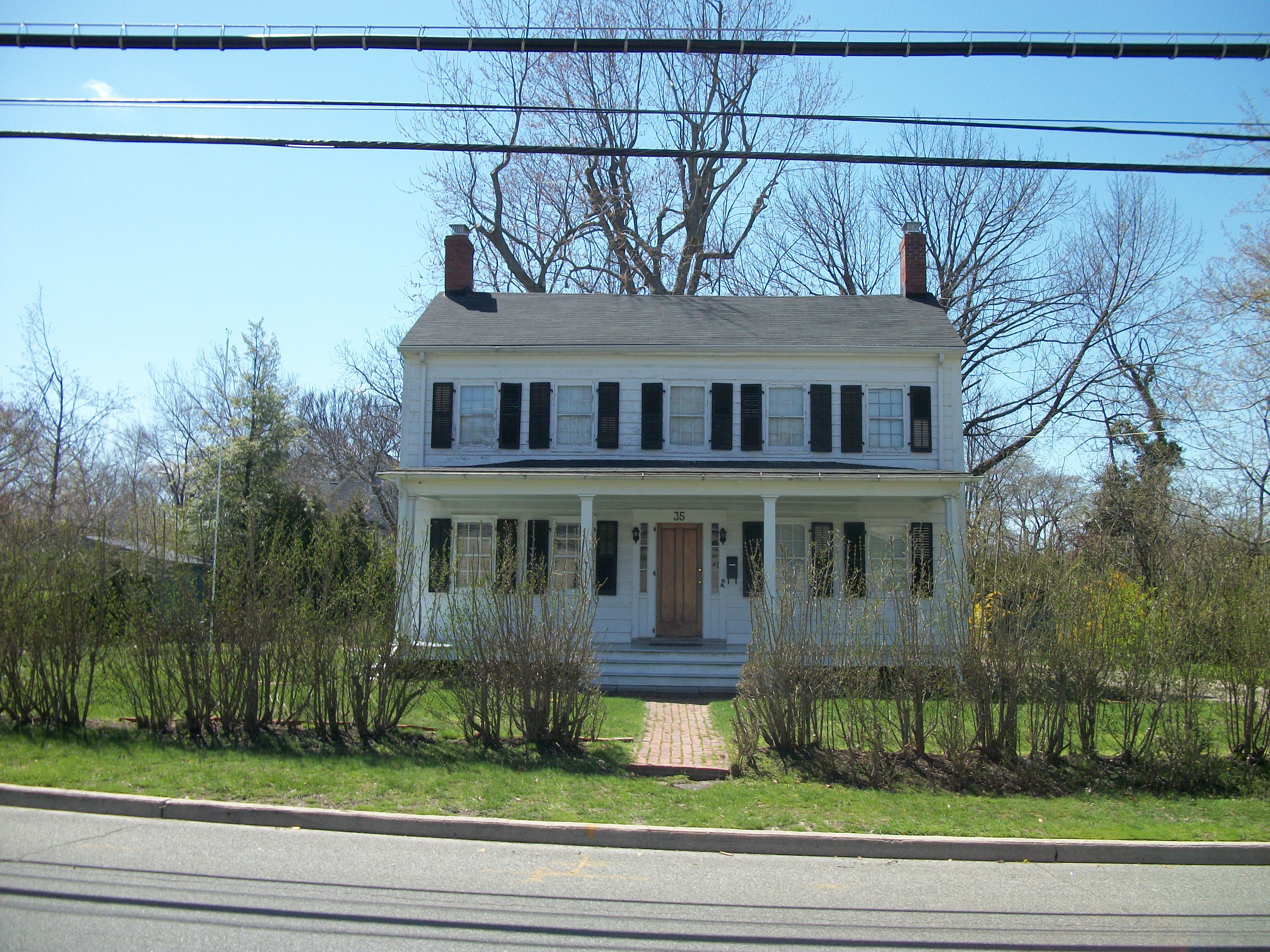 The Ezra C. Prime House at 35 Prime Avenue in Huntington, New York, across from the Heckscher Park and Art Museum.